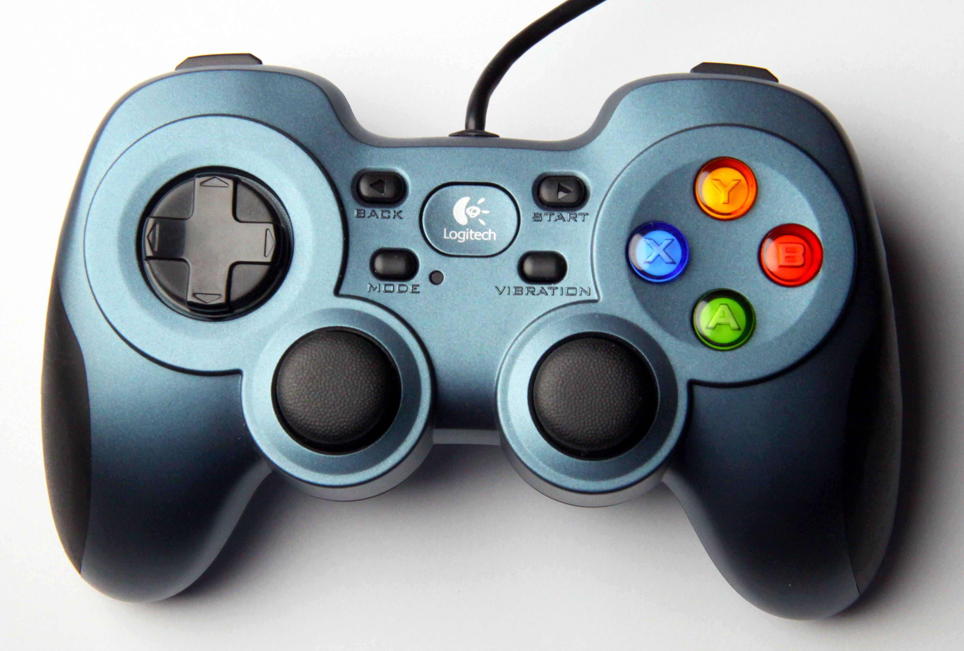 Logitech Gamepad F510